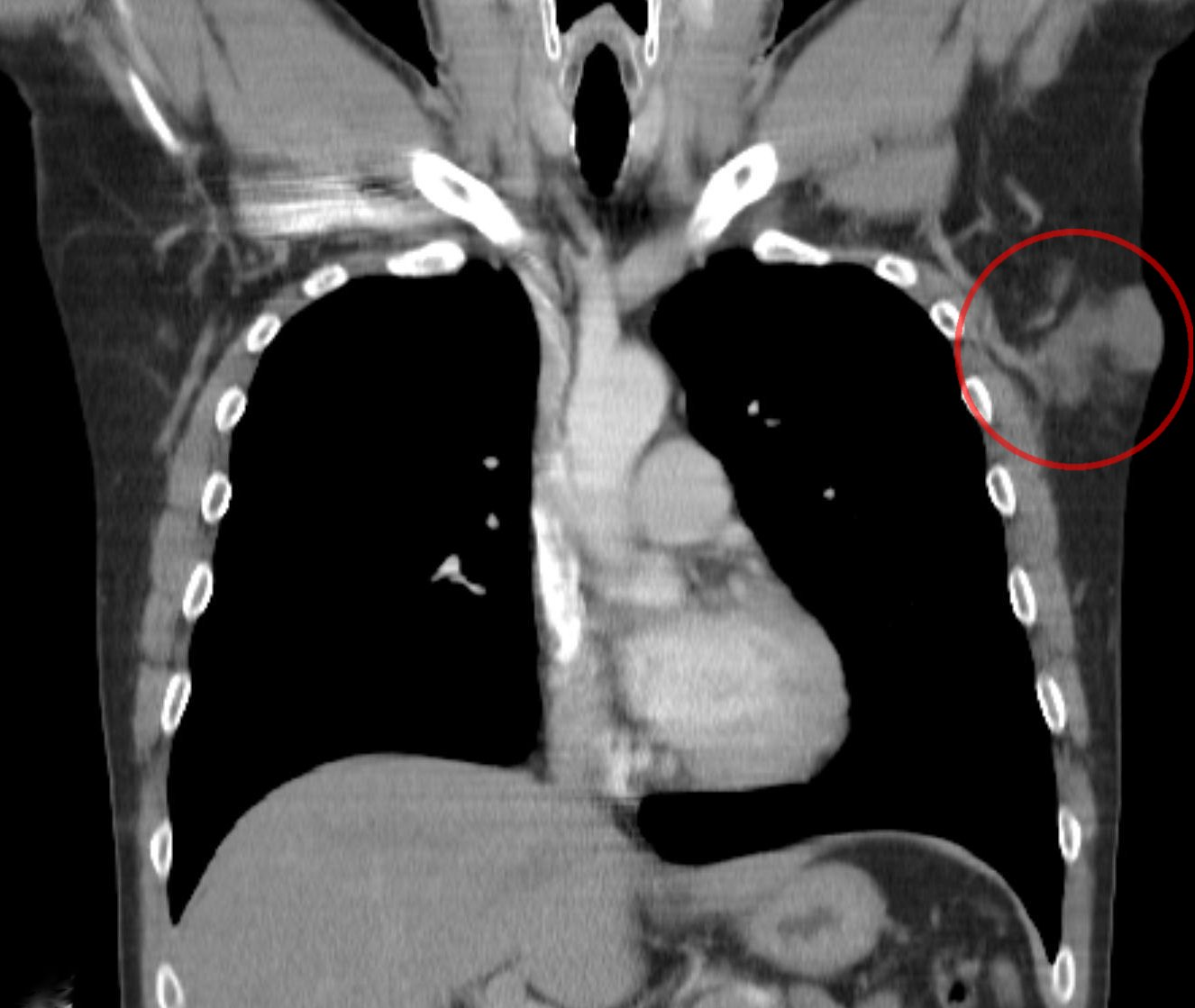 Dermatofibrosarcoma protuberans in computertomographie.